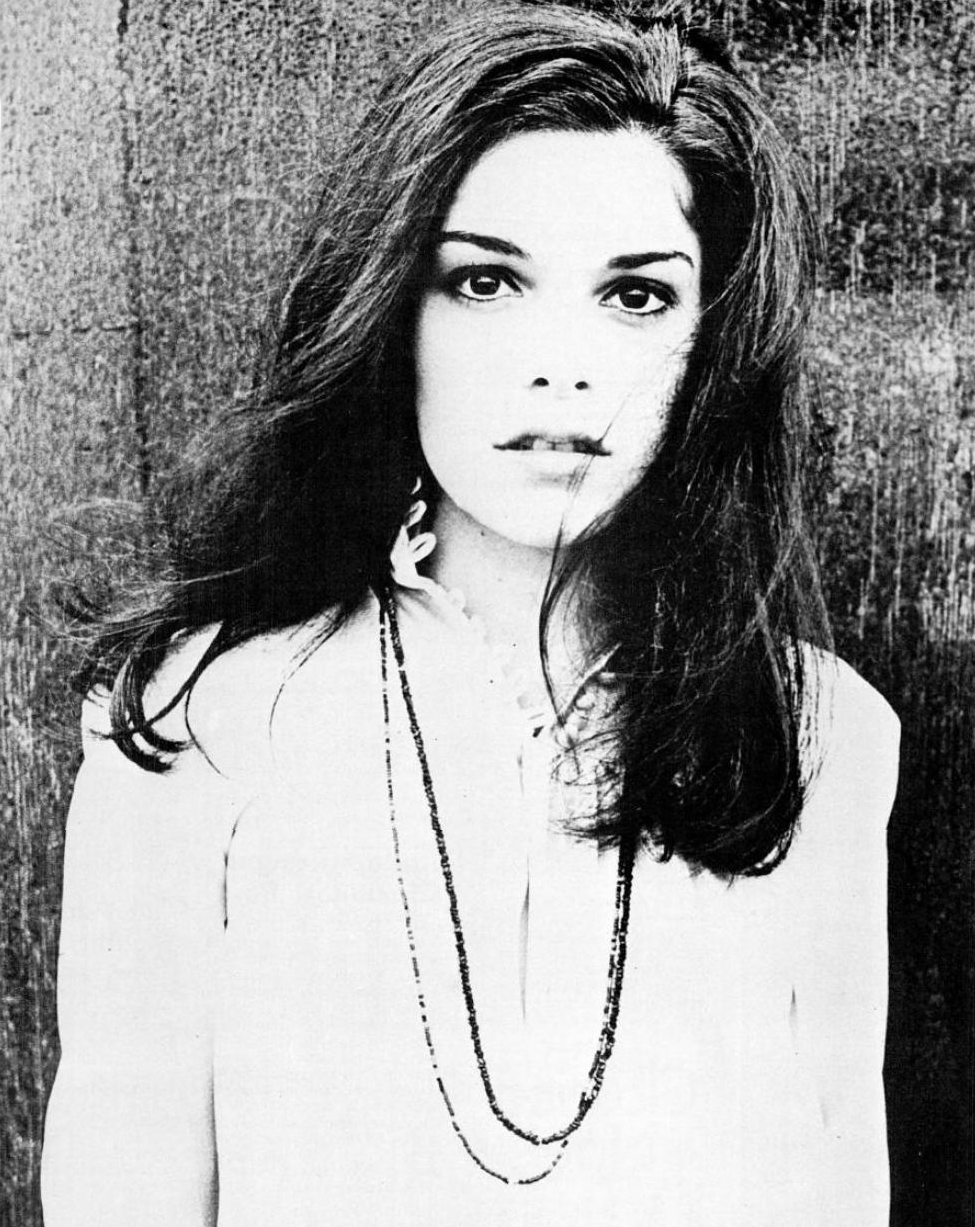 Trade ad for Evie Sands's single "Anyway That You Want Me".To better adapt it to his respective Wikipedia article, the ad was cropped and cleaned in a graphics editing program. The original can be viewed at the source below.